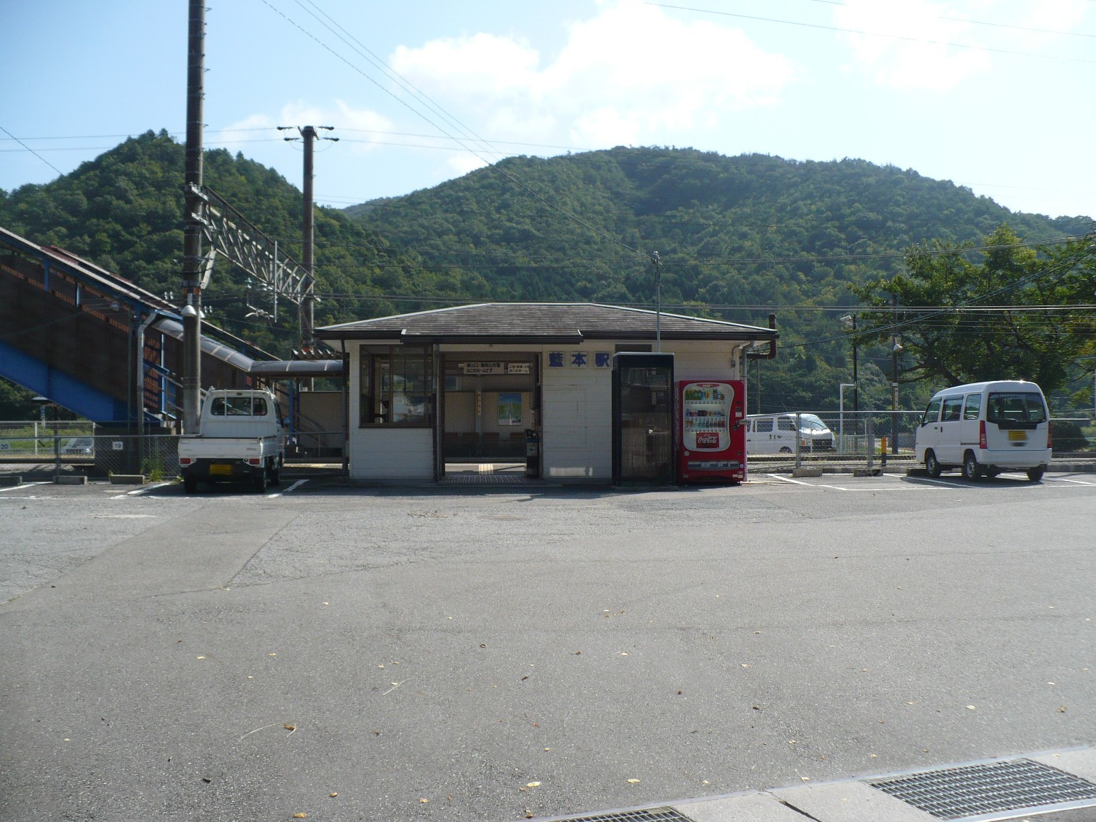 West side building of Aimoto station of JR West Fukuchiyama line, Sanda, Hyogo, Japan